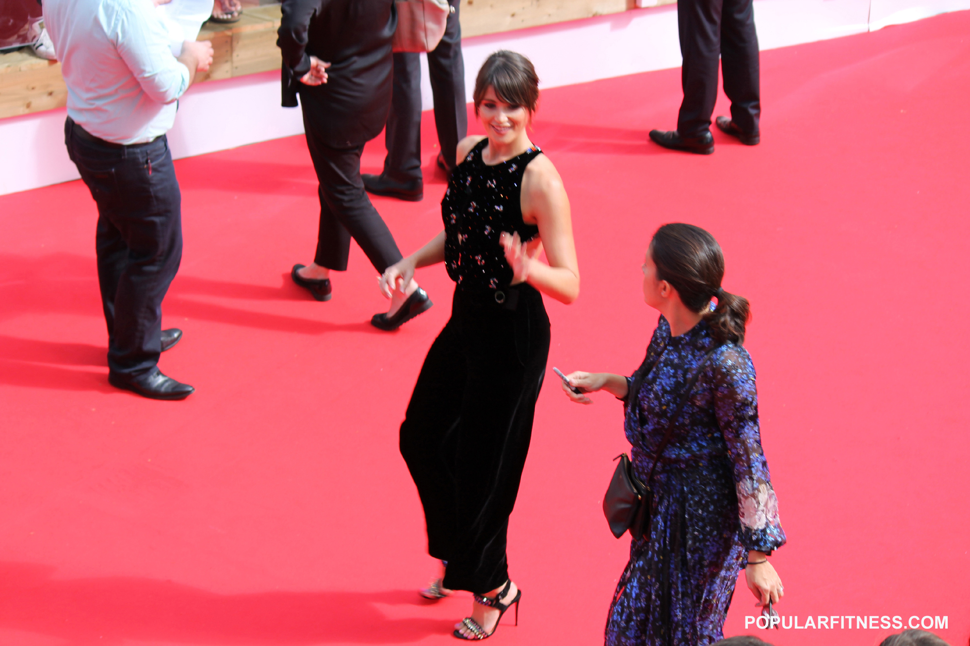 Gemma Arterton caught mid stride on red carpet at 2016 Toronto International Film Festival for the film Their Finest - #TIFF16.